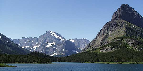 Glacier National Park, Montana, USA. Many Glacier Area. Original caption: Summer has finally come to Glacier. The spectacular vista of Grinnell Peak (right) and Mt Gould dominate the scene at Many Glacier. Take the time to look down as well. The forests and meadows are ablaze with wildflowers right now.